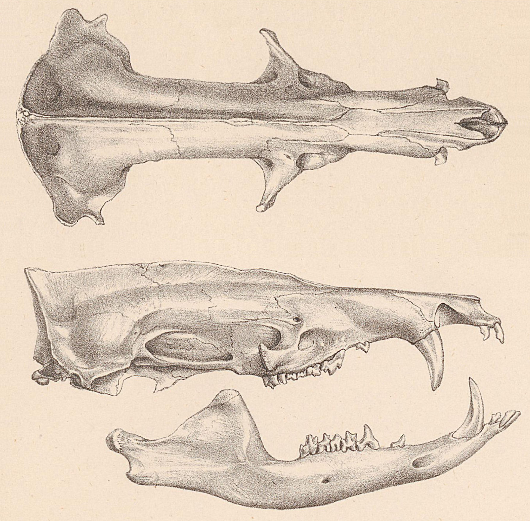 Skull of the Tailless tenrec (Tenrec ecaudatus)